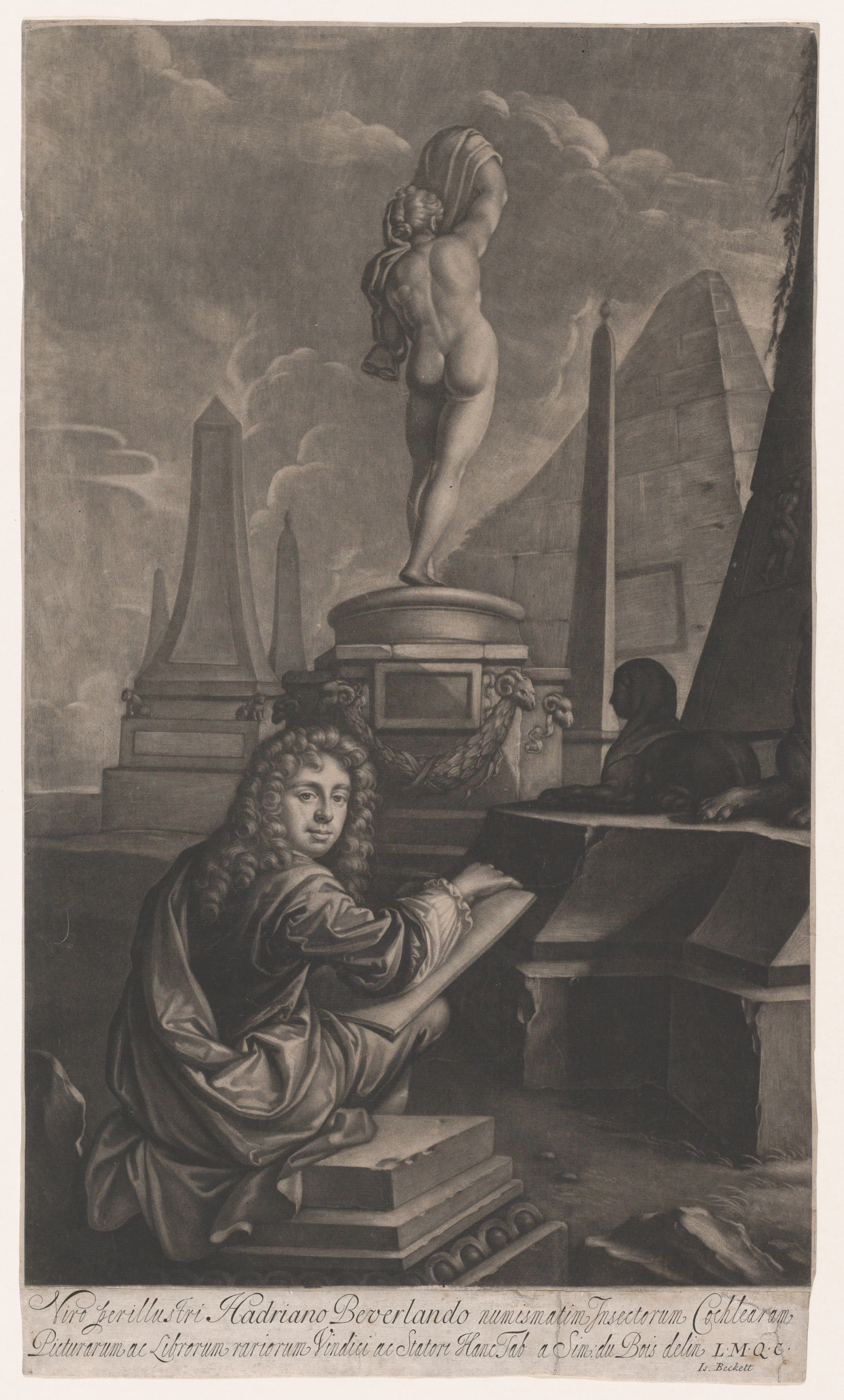 Print; Prints